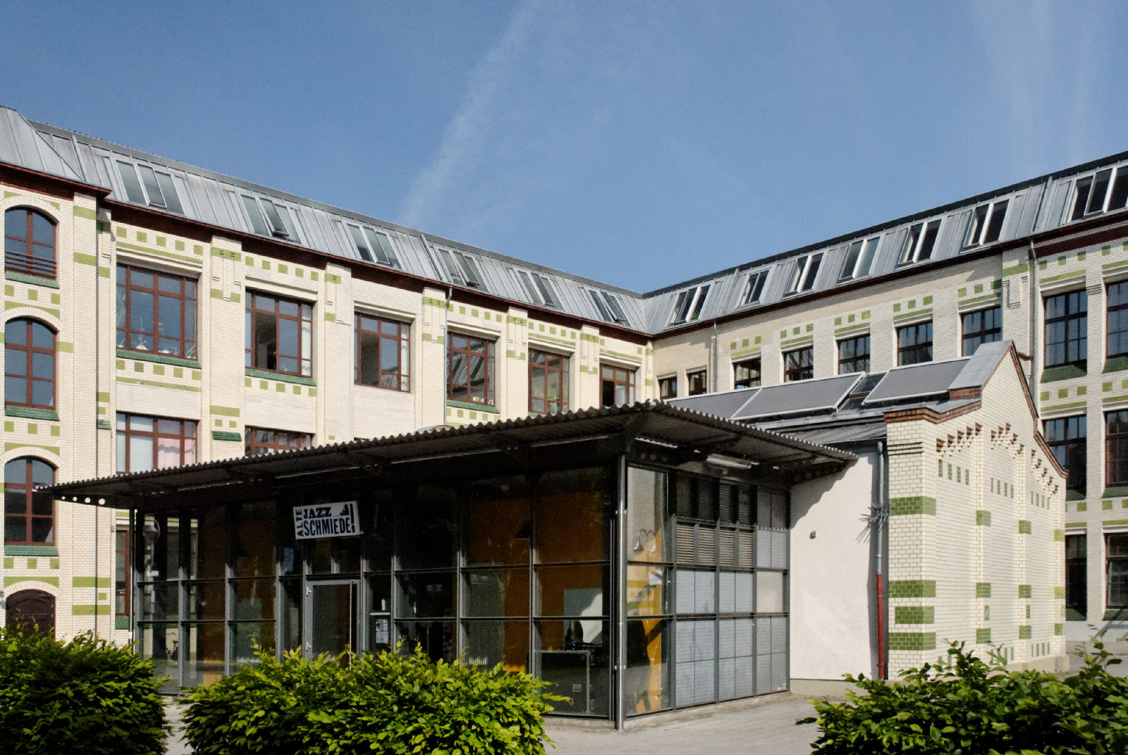 Jazz-Schmiede in Düsseldorf-Bilk, Germany